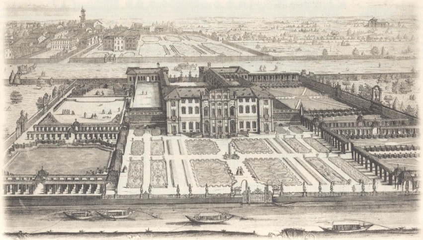 Villa Alari, also known as the Villa Visconti di Saliceto, is a Rococo style rural palace in Cernusco sul Naviglio, in the Province of Milan, in the Region of Lombardy, Italy.